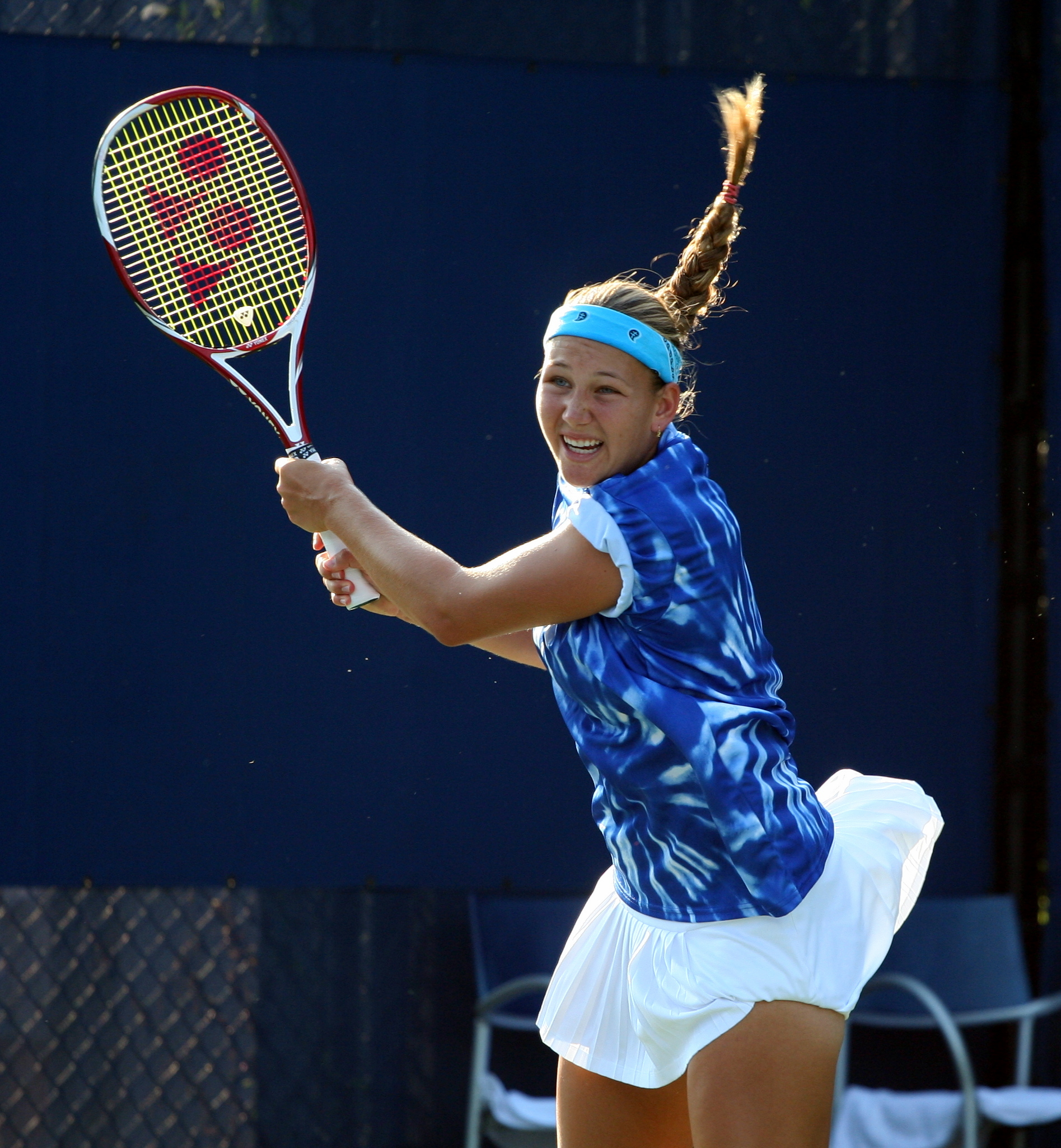 Nicole Melichar in action at the 2012 US Open – Mixed Doubles